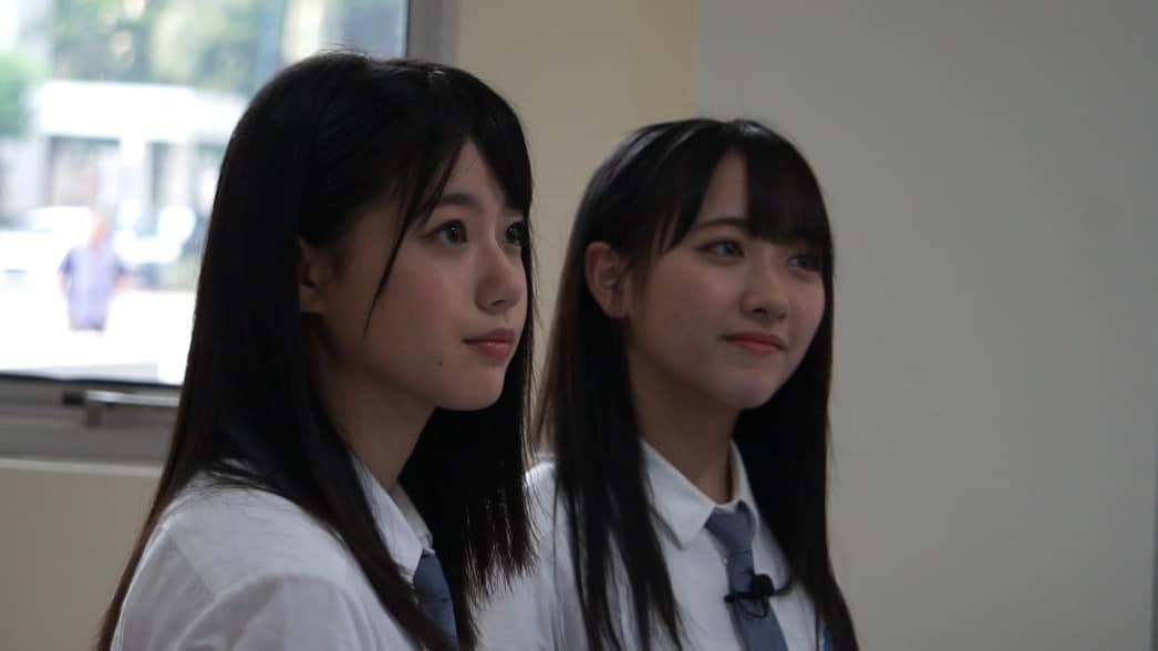 Chiho Ishida and Yumiko Takino visit Universitas Darma Persada, Jakarta